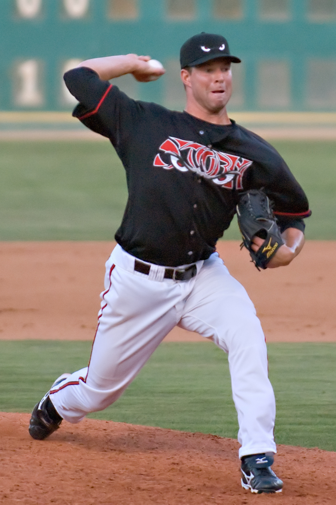 Corey Kluber